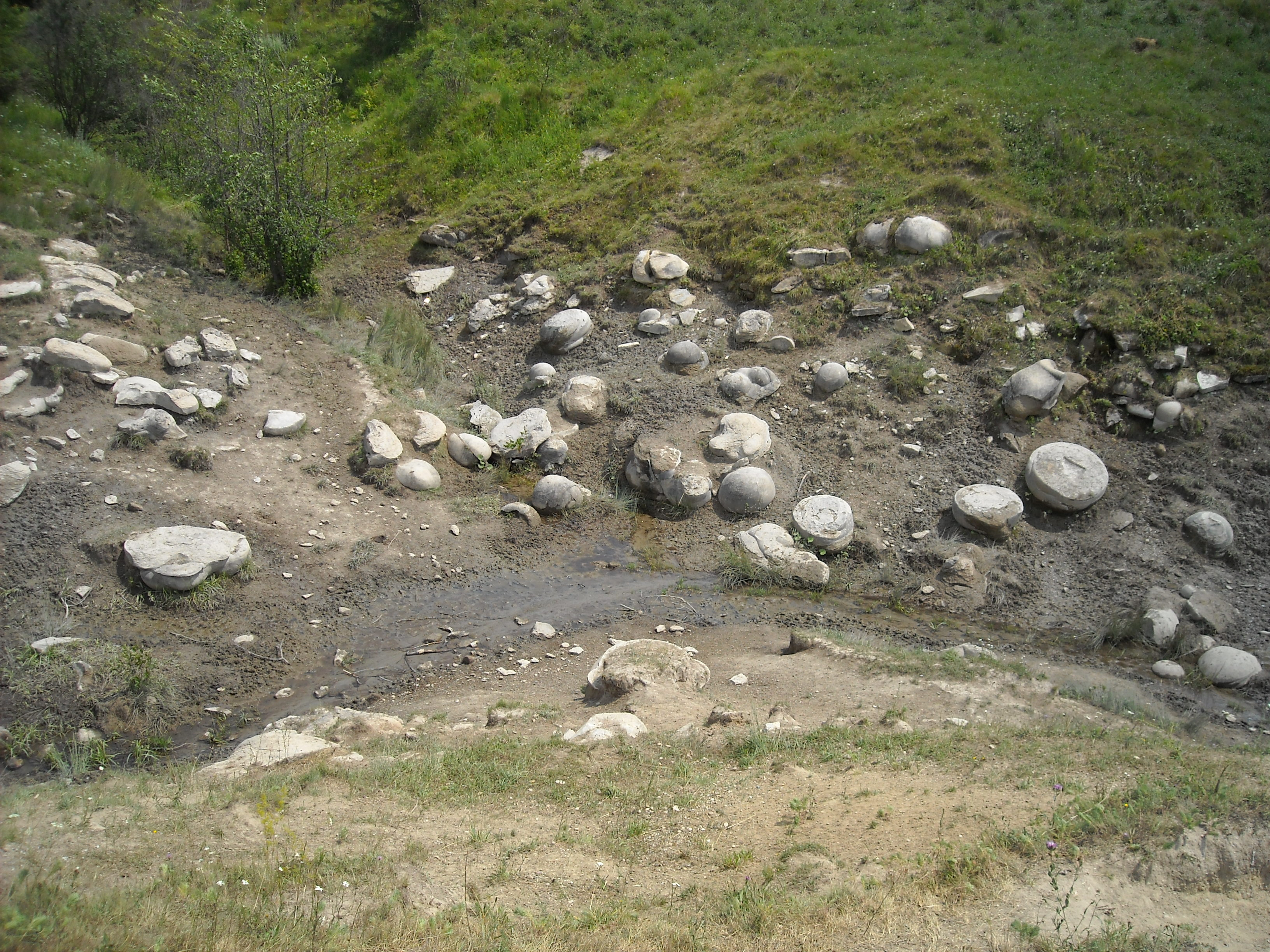 Spherical stones in the Groapa Urșilor/Medve-árok, to the W from Feleacu.